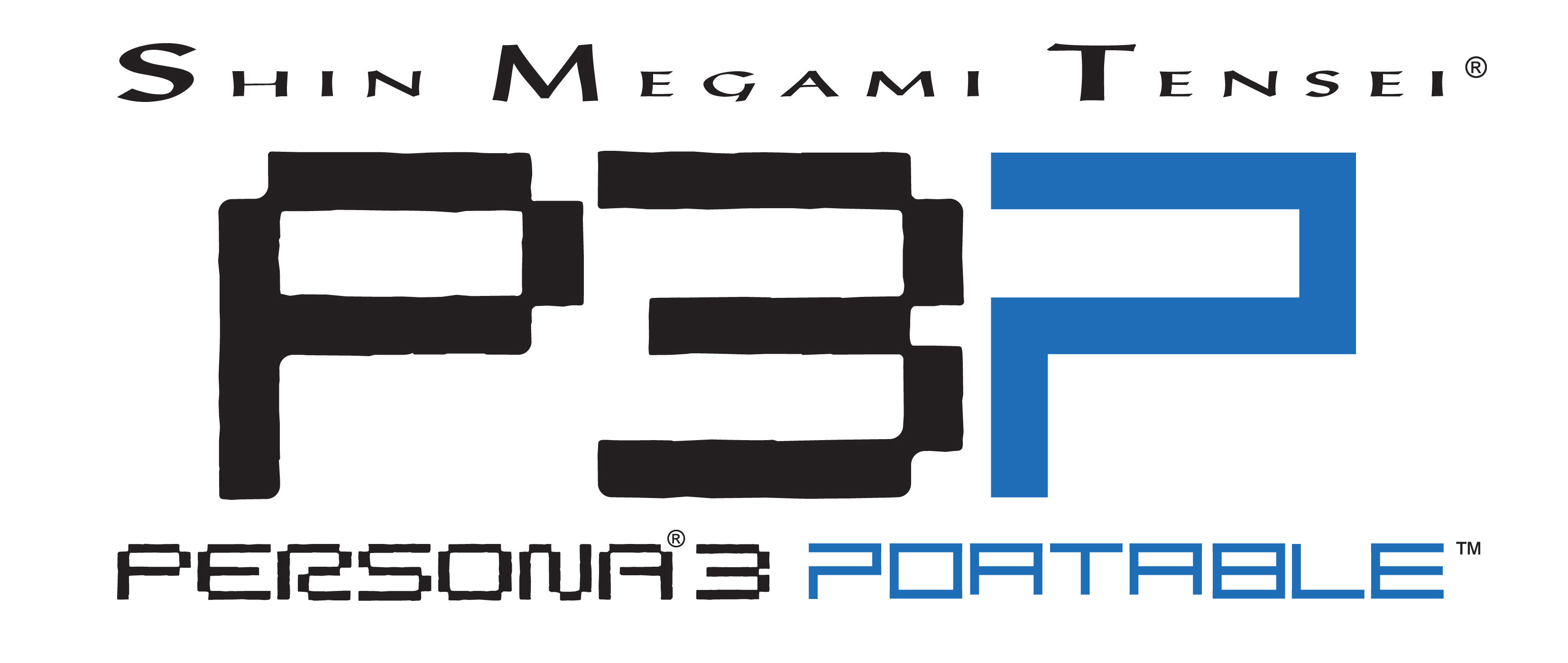 Logo used for Atlus's Shin Megami Tensei: Persona 3 Portable video game (2010).